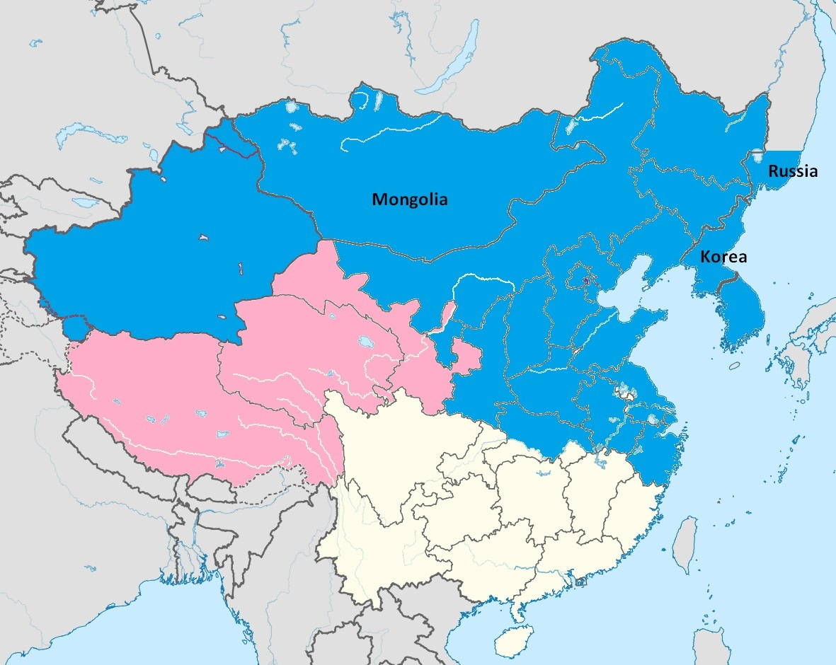 Map showing the range of the Mongolian wolf (Canis lupus chanco) in China and surrounding countries. The area shaded in blue represents the range of Canis lupus chanco. The area shaded in pink represents the range of the Tibetan wolf Canis lupus filchneri. The area shaded in yellow represents the range of the yet to be named wolf. Note: the range of chanco is not entirely accurate, and its range in China is based on the description of "North China and Central China" given in both Wang (2003) A Complete Checklist of Mammal Species and Subspecies in China (A Taxonomic and Geographic Reference) and in Smith (2008) A Guide to the Mammals of China.